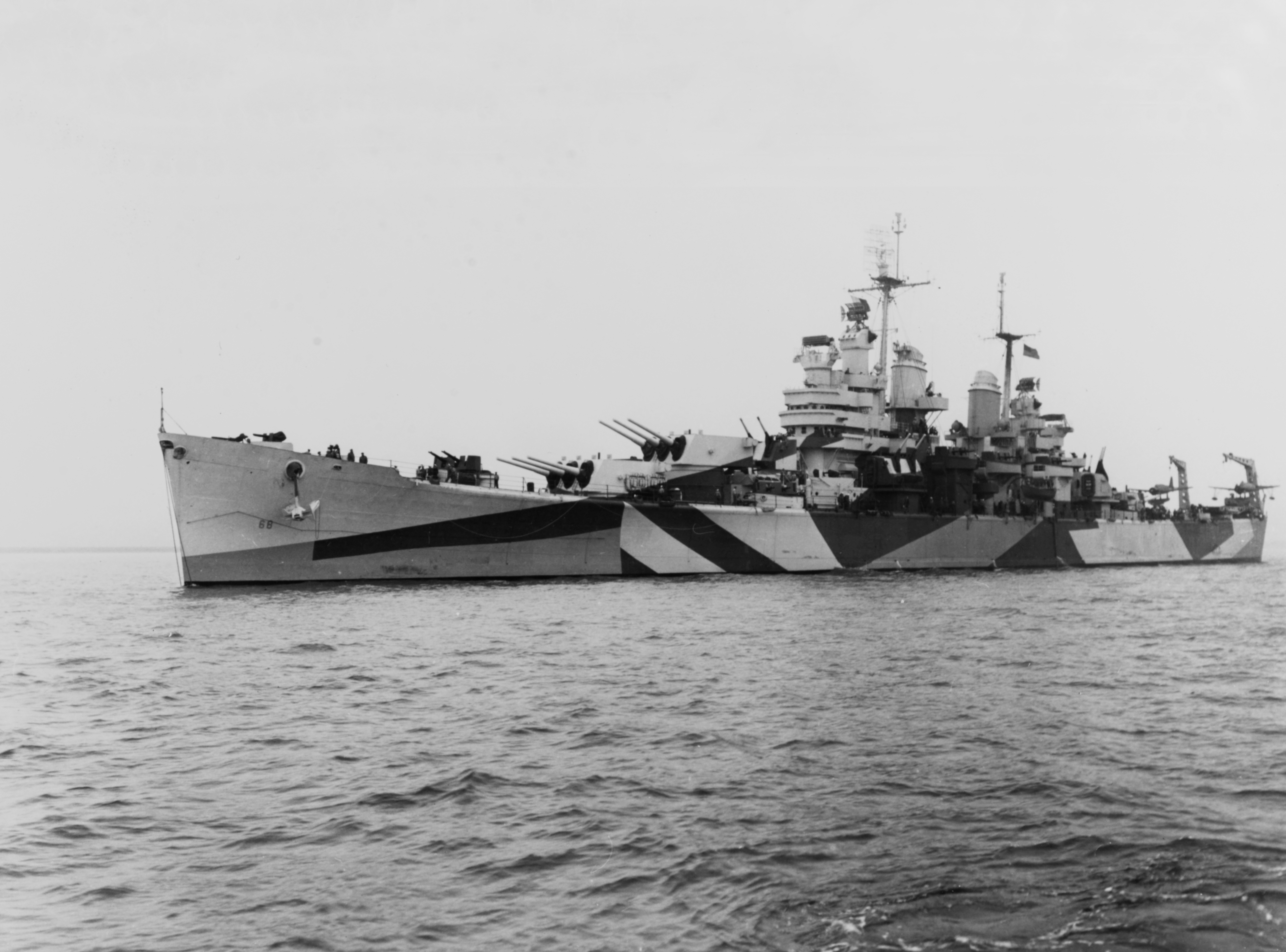 The U.S. Navy heavy cruiser USS Baltimore (CA-68) off the Mare Island Naval Shipyard, California (USA), on 18 October 1944. Her camouflage is Measure 32, Design 16d.